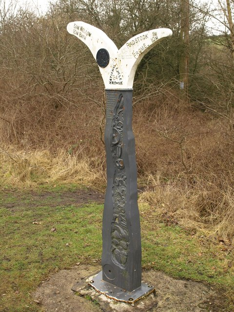 Millennium Milepost, NCN 24